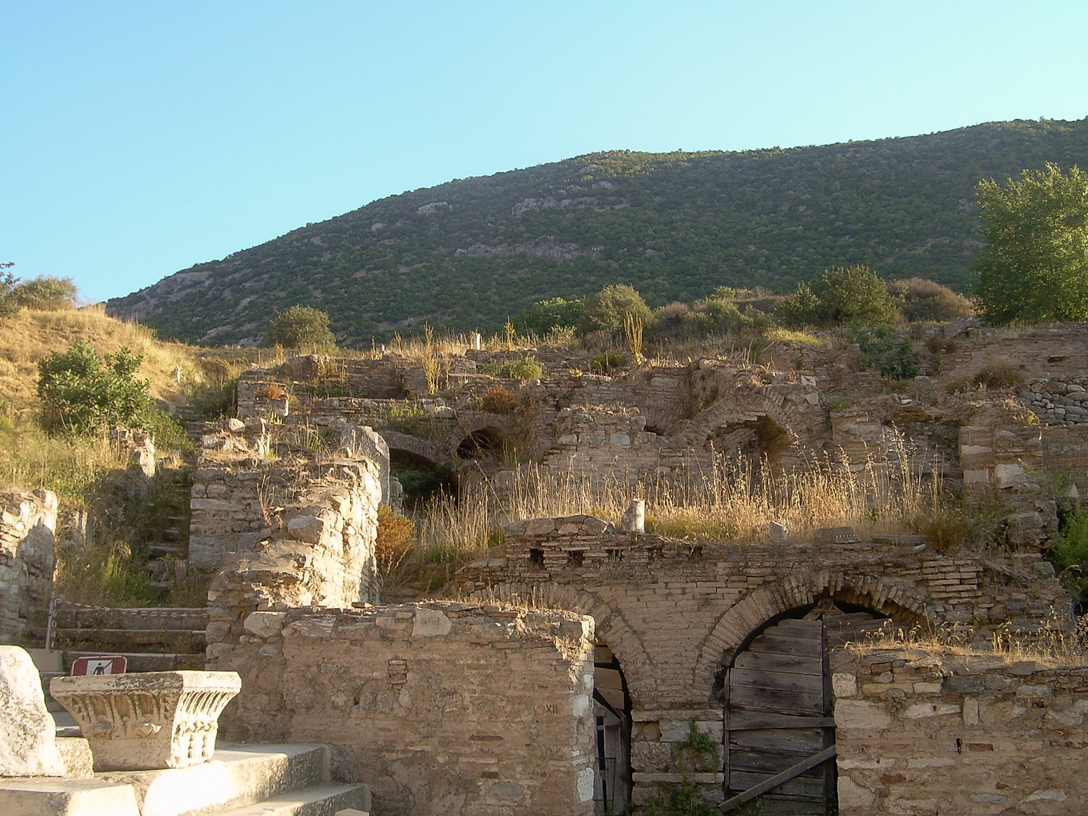 Ruins in Ephesus